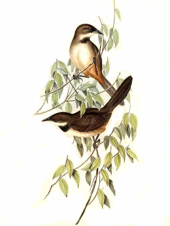 Noisy Scrub-bird (Atrichornis clamosus)